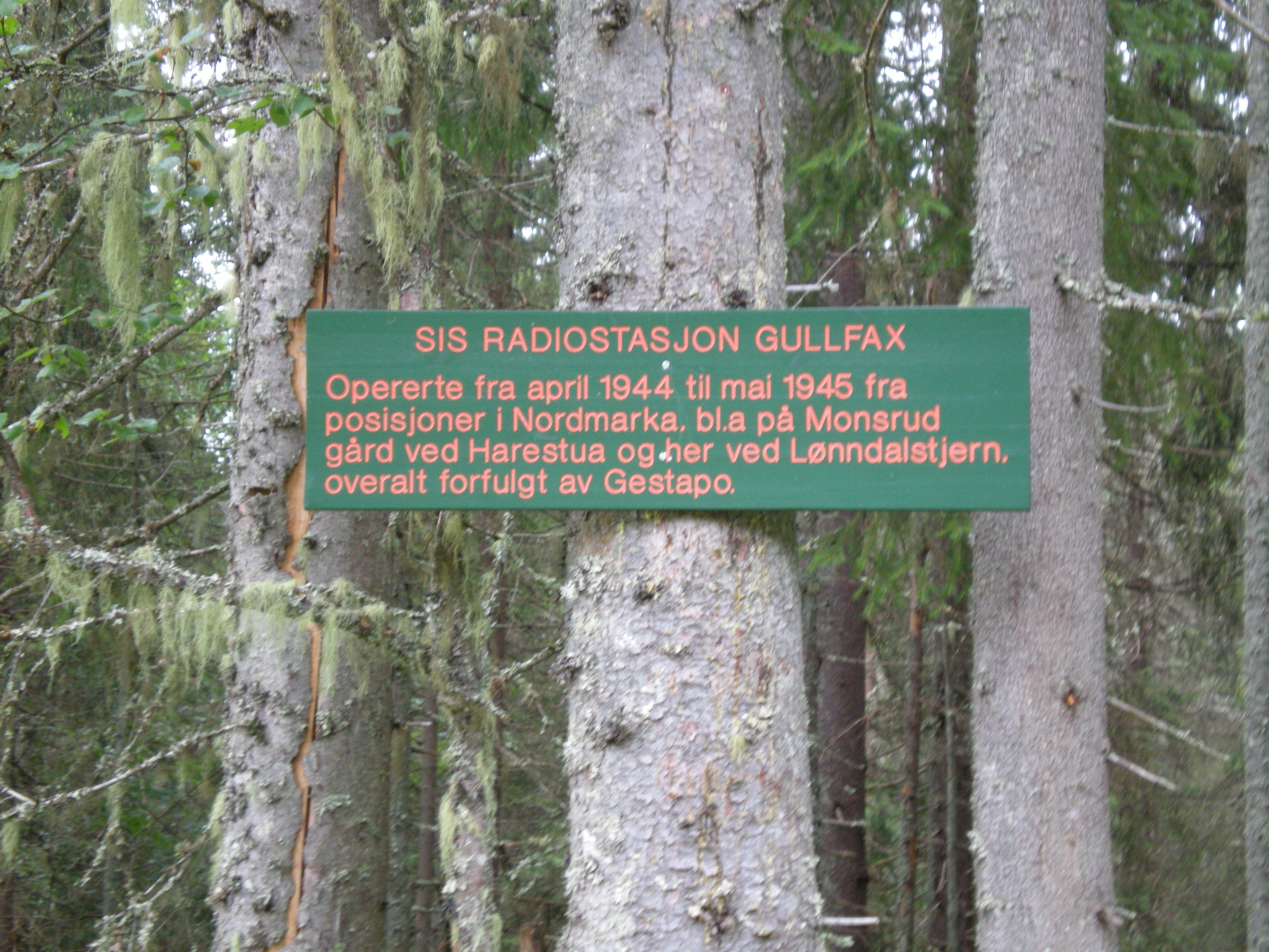 Plaquette (Norwegian) in remembrance of the SIS / Milorg radiostation "Gullfax" in the northern part of Nordmarka, led by Osvald/Milorg resistance fighter Josef Monsrud.